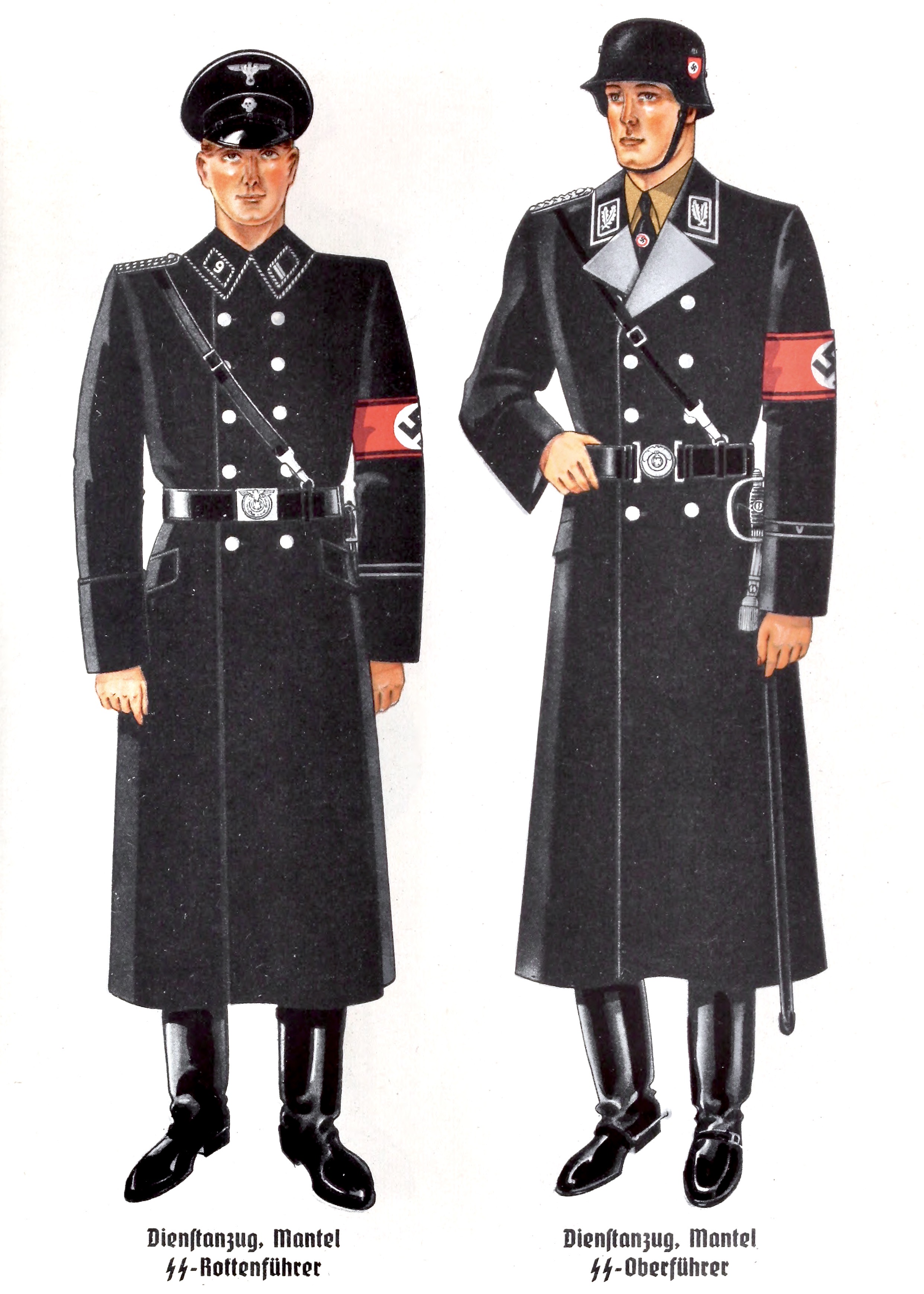 ORGANISATIONSBUCH DER NSDAP 1943: Tafel 47 Dienstanzug Mantel (SS-Rottenführer, SS-Oberführer)Color plate showing uniforms, etc. of the Schutzstaffel (SS), a major paramilitary organization under Adolf Hitler and the the Nationalsozialistische Deutsche Arbeiterpartei (NSDAP, National Socialist German Workers' Party) in Nazi Germany. Cropped image with increased contrasts/brighter colors of a page copied from Organisationsbuch der NSDAP by Reichsorganisationsleiter Robert Ley (1890 – 1945) published 1943 ("Herausgeber: Robert Ley"; "7 Auflage: 301-400 Tausend"). Publisher : Zentralverlag der NSDAP, Franz Eher Nachf., München. 856 pages. 596 (ie 750) p: ill, maps, ports, plates; 22 cm; German language. Letters in Fraktur style typefaces. Legal disclaimer This image shows (or resembles) a symbol that was used by the National Socialist (NSDAP/Nazi) government of Germany or an organization closely associated to it, or another party which has been banned by the Federal Constitutional Court of Germany. The use of insignia of organizations that have been banned in Germany (like the Nazi swastika or the arrow cross) are also illegal in Austria, Hungary, Poland, Czech Republic, France, Brazil, Israel, Ukraine, Russia and other countries, depending on context. In Germany, the applicable law is paragraph 86a of the criminal code (StGB), in Poland – Art. 256 of the criminal code (Dz.U. 1997 nr 88 poz. 553).